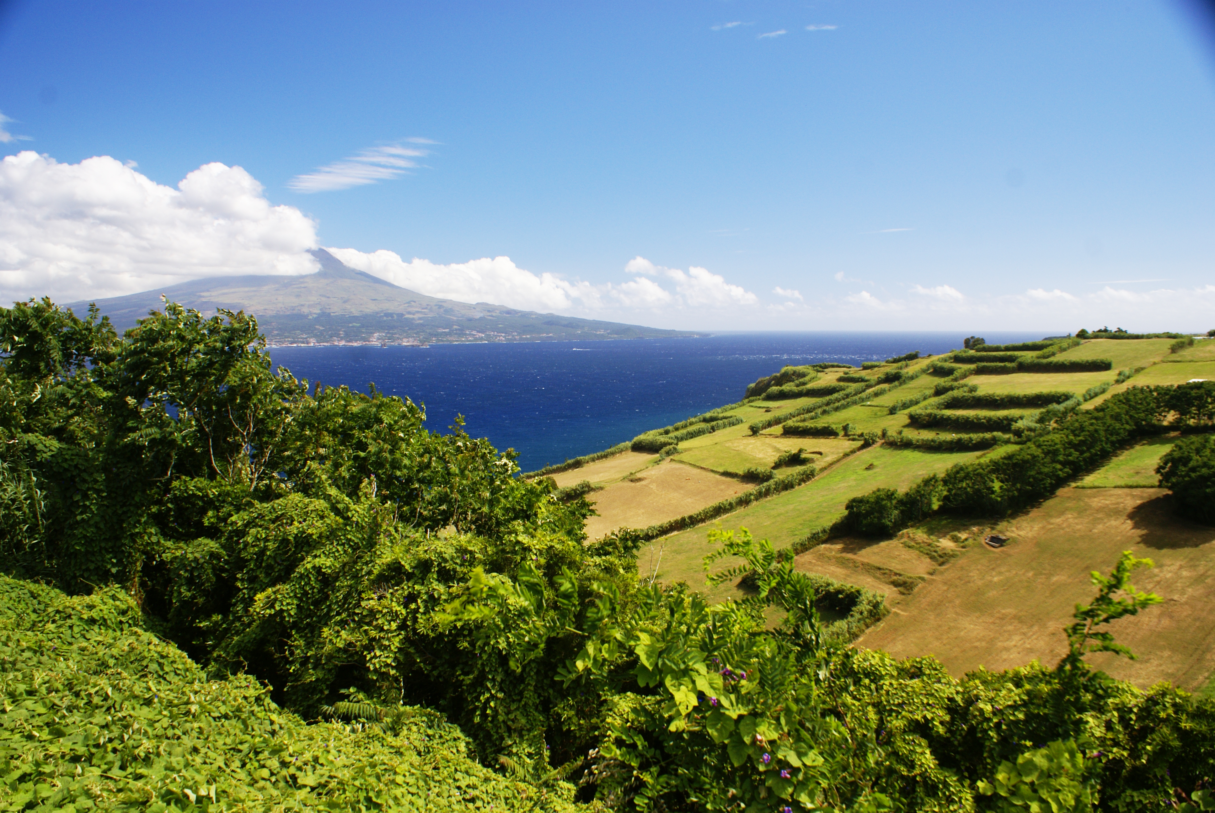 Miradouro da Ribeirinha, a ilha do Pico como pano de fundo, Ribeirinha, concelho da Horta, ilha do Faial, Açores, Portugal